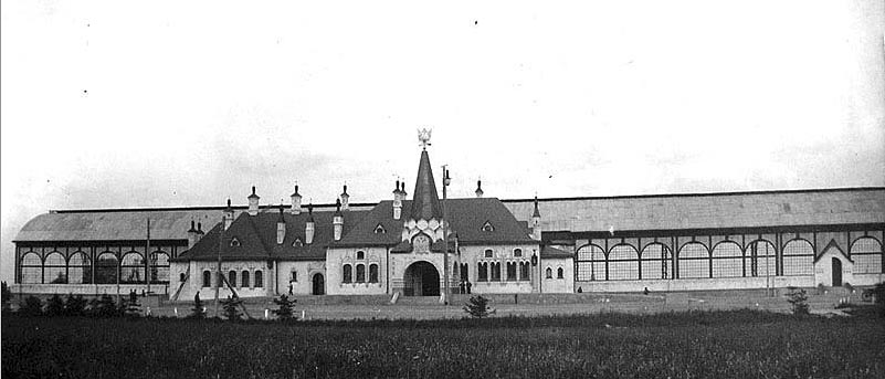 Emperor railway station in Pushkin town Licensing This work is in the public domain in Russia according to article 1256 of Book IV of the Civil Code of the Russian Federation No. 230-FZ of December 18, 2006. It was published on territory of the Russian Empire (Russian Republic) except for territories of the Grand Duchy of Finland and Congress Poland before 7 November 1917 and wasn't re-published for 30 days following initial publications on the territory of Soviet Russia or any other states. The Russian Federation (early RSFSR, Soviet Russia) is the historical heir but not legal successor of the Russian Empire. If applying, PD-old-100 should be used instead of this tag. This work is in the public domain in the United States because it was published (or registered with the U.S. Copyright Office) before January 1, 1923.